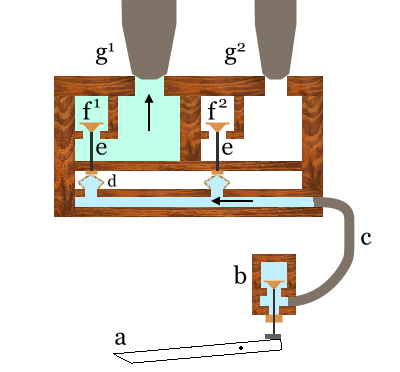 drawing of the cone chest of an organ playing